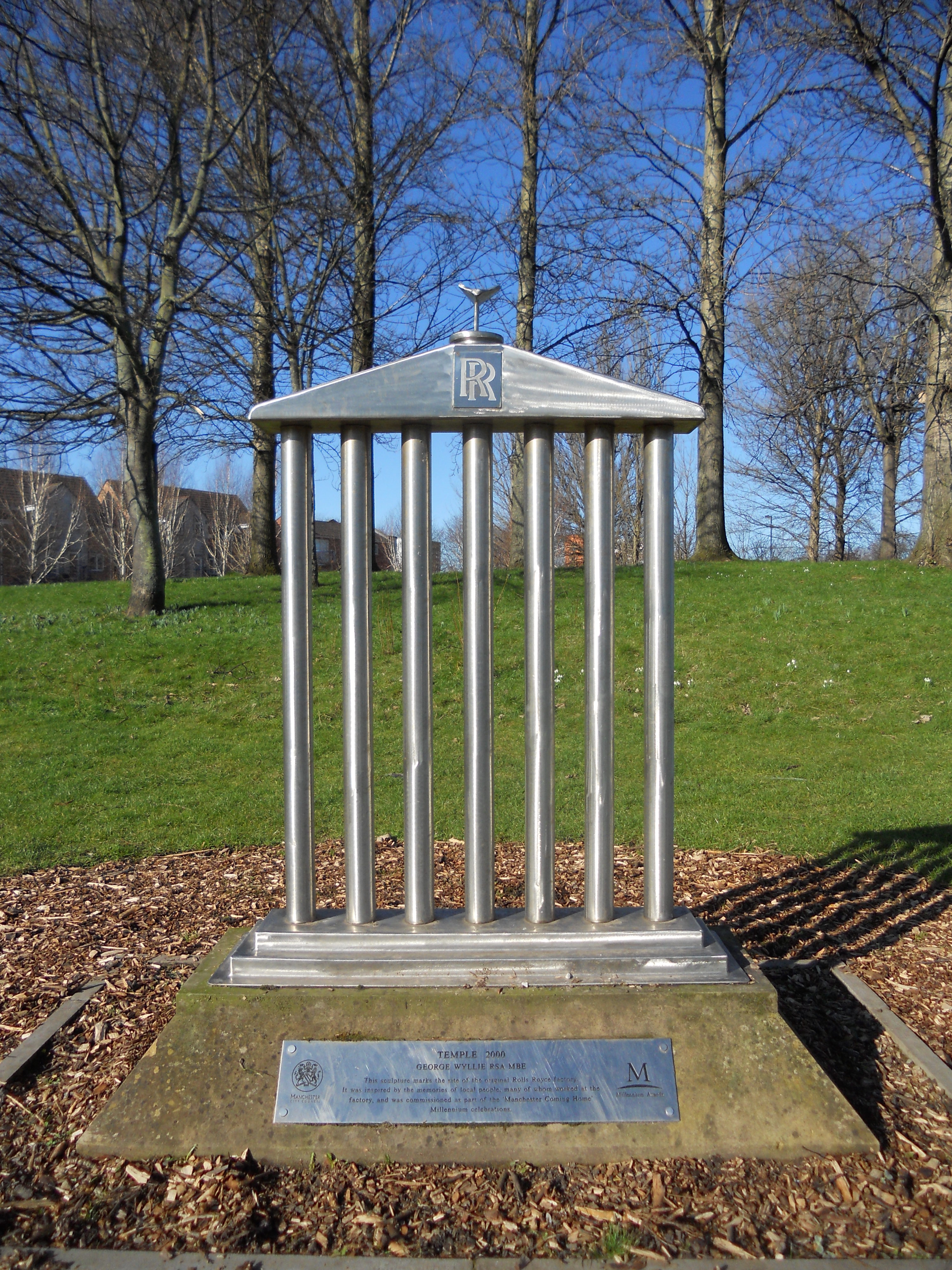 Temple 2000 by George Wyllie, commemorating the Rolls Royce factory at Cooke Street off Stretford Road in Hulme.